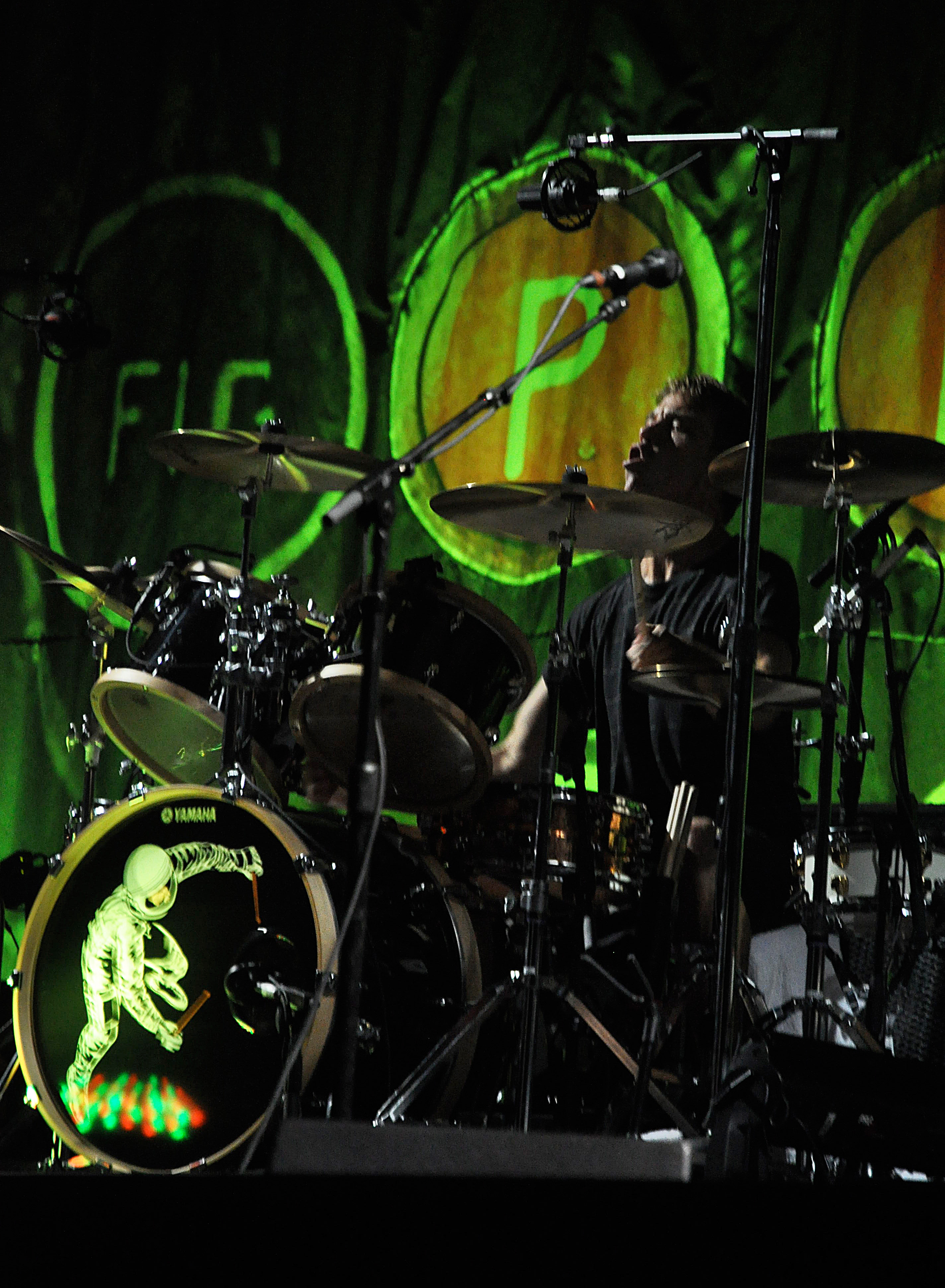 Matt Cameron, drummer of Soundgarden and Pearl Jam